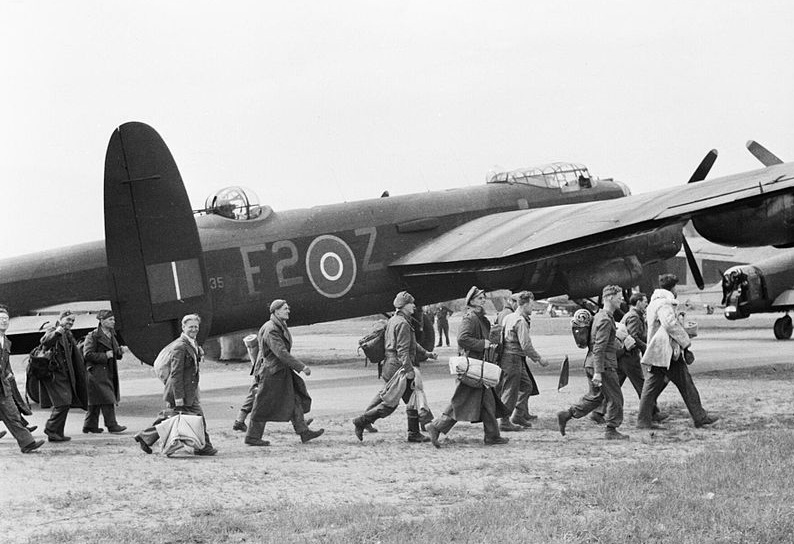 RAF officers held at Oflag X-C in Lübeck, Germany board Lancasters for their return flight to England at the end of the war.